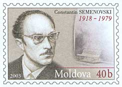 Stamp of Moldova